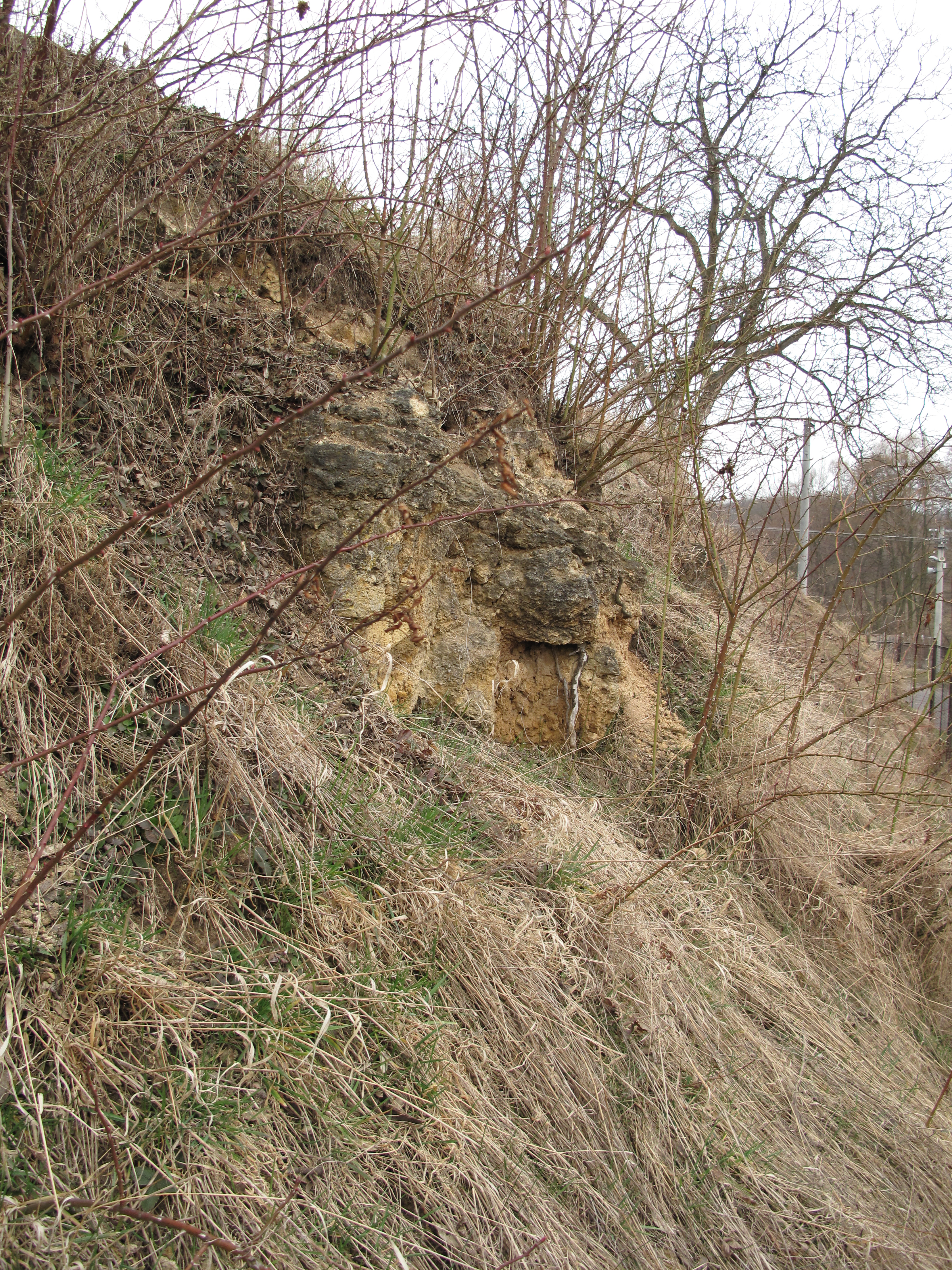 Thornbush in natural monument "Travertinová kupa" in Tuchořice village, Louny District, Czech Republic.